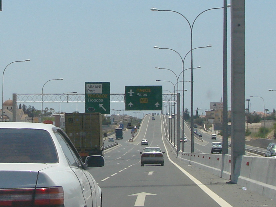 A6 Motorway towards Paphos Photo taken at Limassol next 2 Tsirion Stadium in July 2007 by me. TomasNY 18:21, 14 August 2007 (UTC)